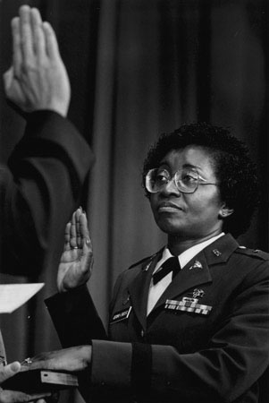 From source: Object ID: WV0332.6.008 Description: Clara Adams-Ender, with one hand on the Bible and one hand raised, is sworn in as a general officer and Chief of the Army Nurse Corps in September 1987. Collection: Clara Adams-Ender Papers